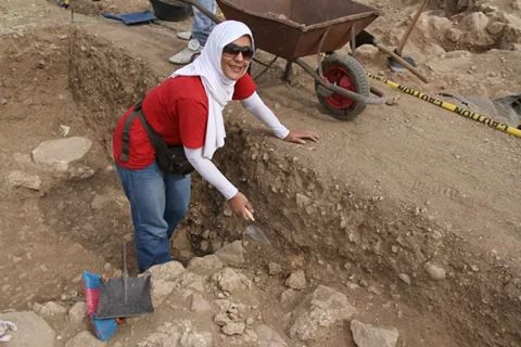 Kheria Al-Kukhun in field work.